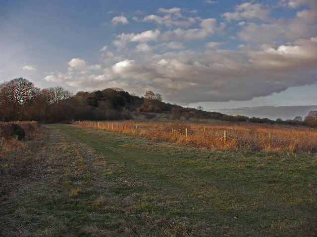 Lodge Hill. Photograph looking northeast. Remains of a ditched Iron Age settlement have been found on this southern flank of the Hill.